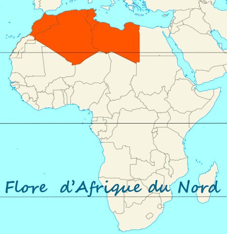 Area covered by the Flore d'Afrique du Nord